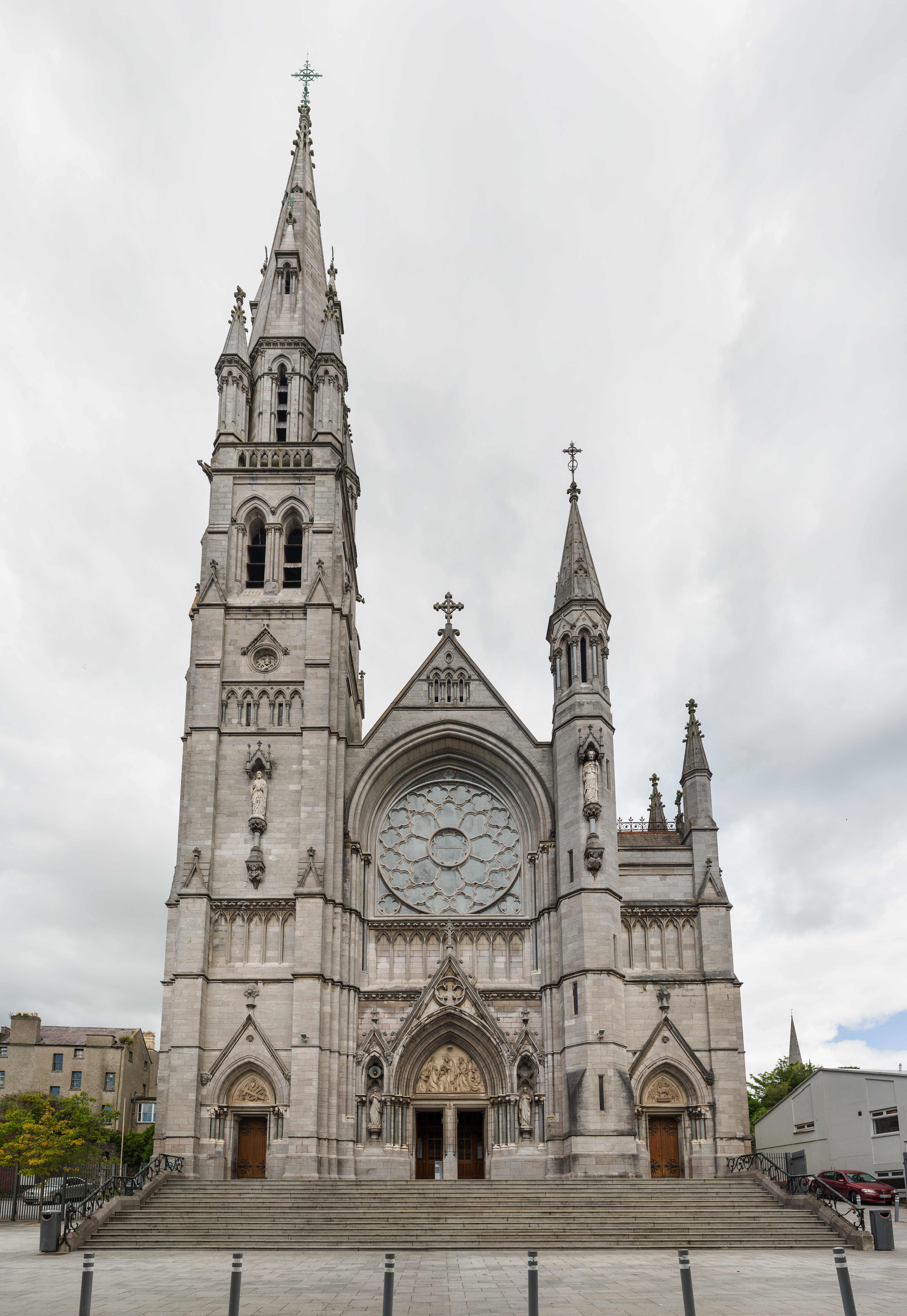 The exterior of St Peter's Church in Drogheda, Ireland, looking north from West Street.